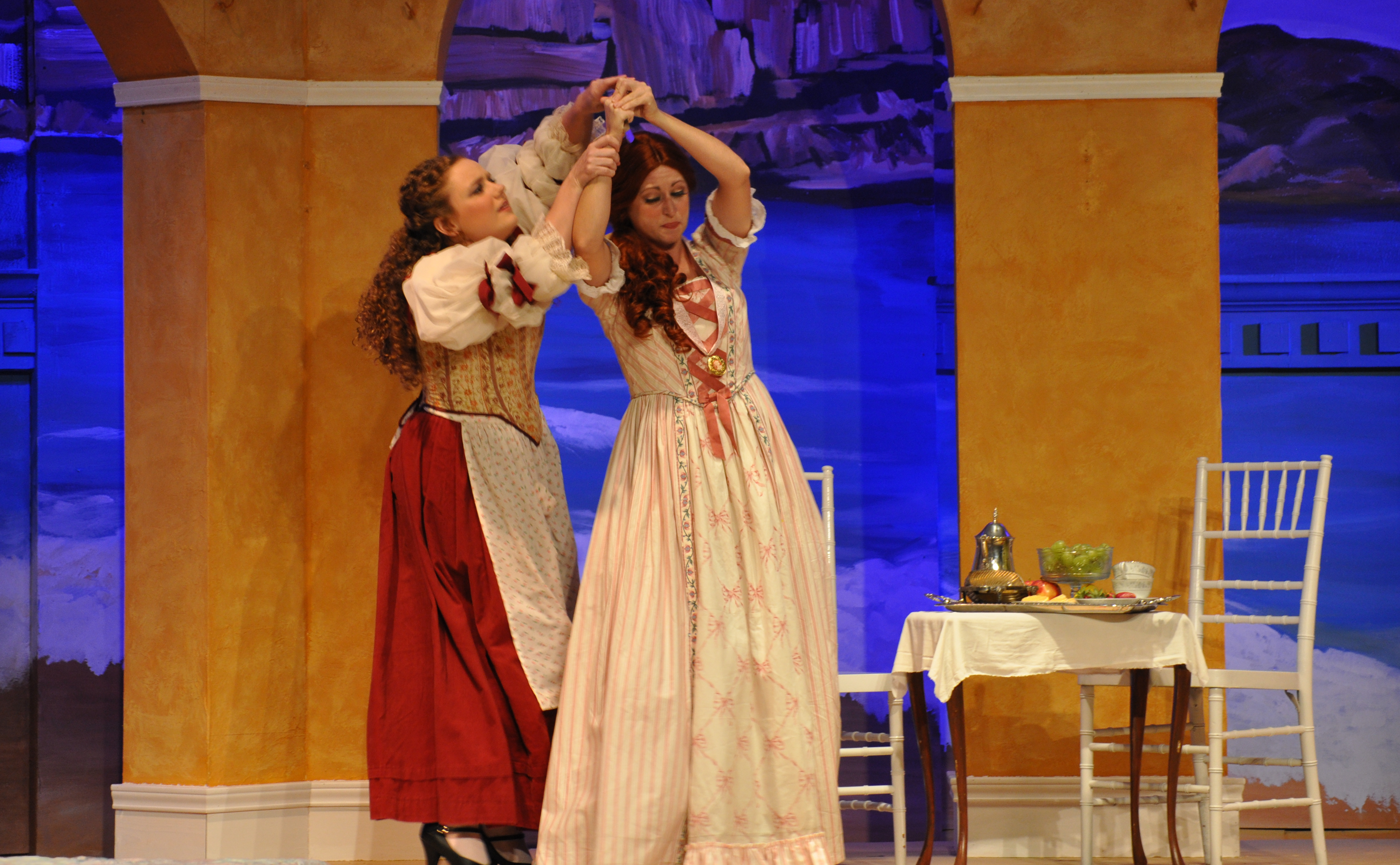 Opera in the Heights